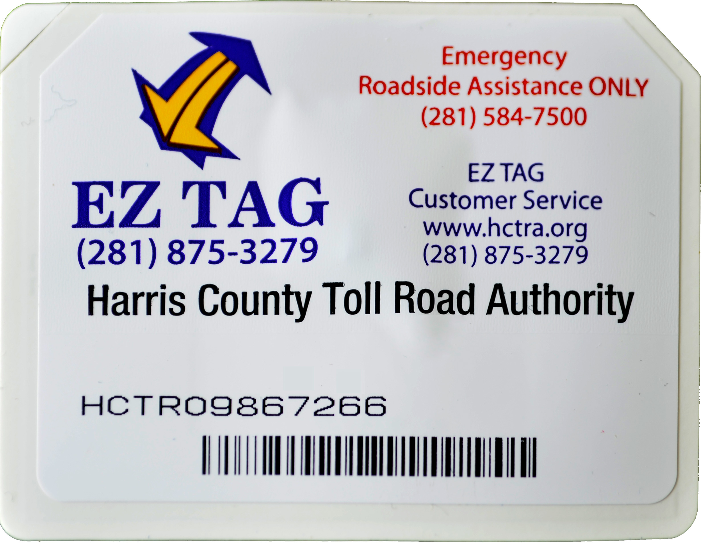 This is the EZ TAG design as of 2017